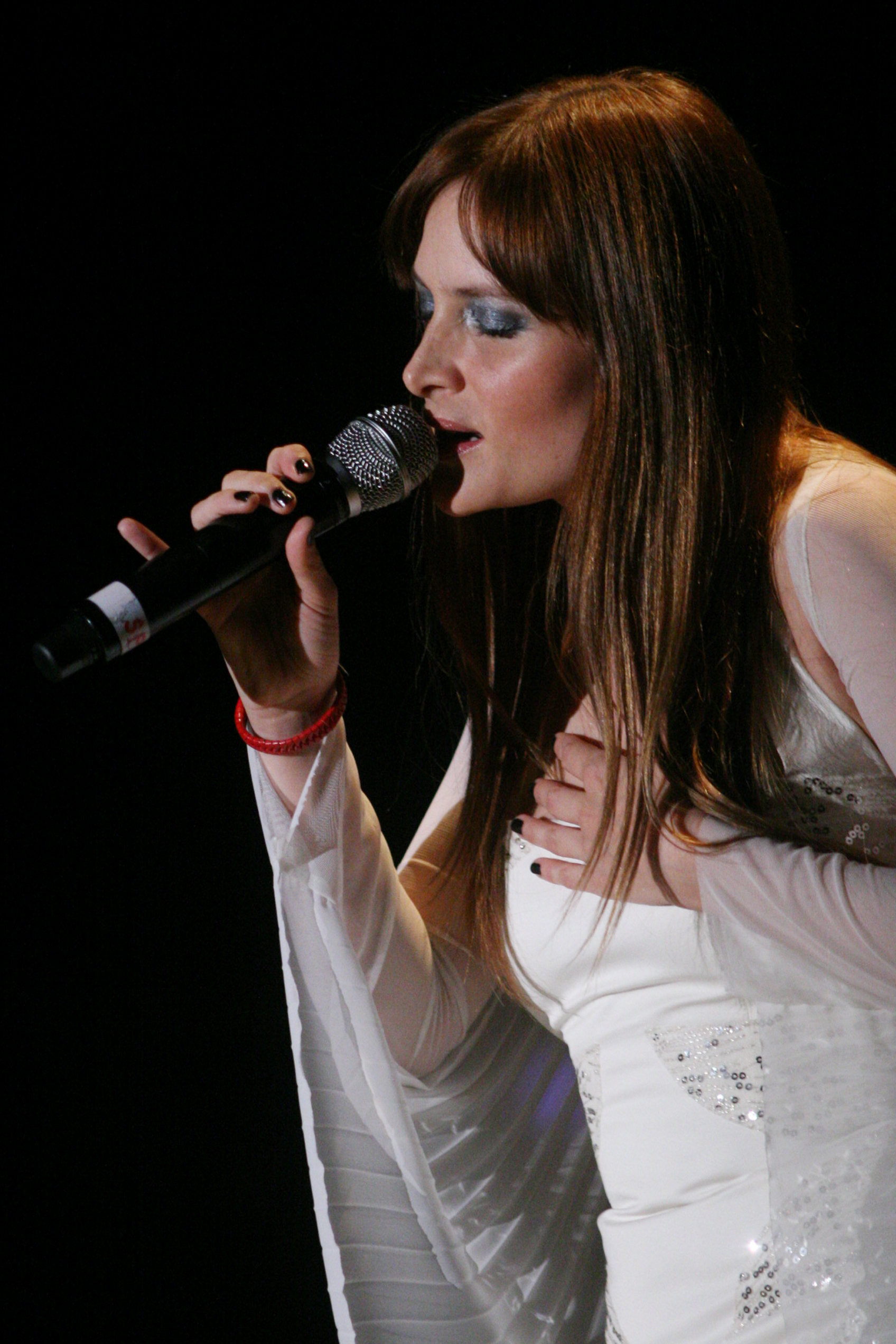 Nicole live at Teatro Nescafé de las Artes, celebrate her 20th years of career in music.